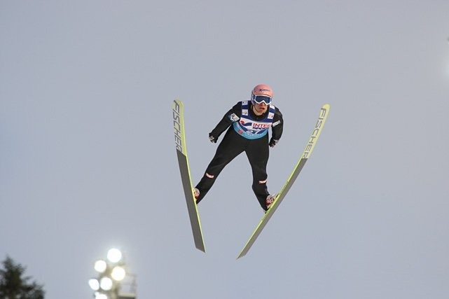 Andreas Kofler in the FIS Ski-Flying World Championships 2012